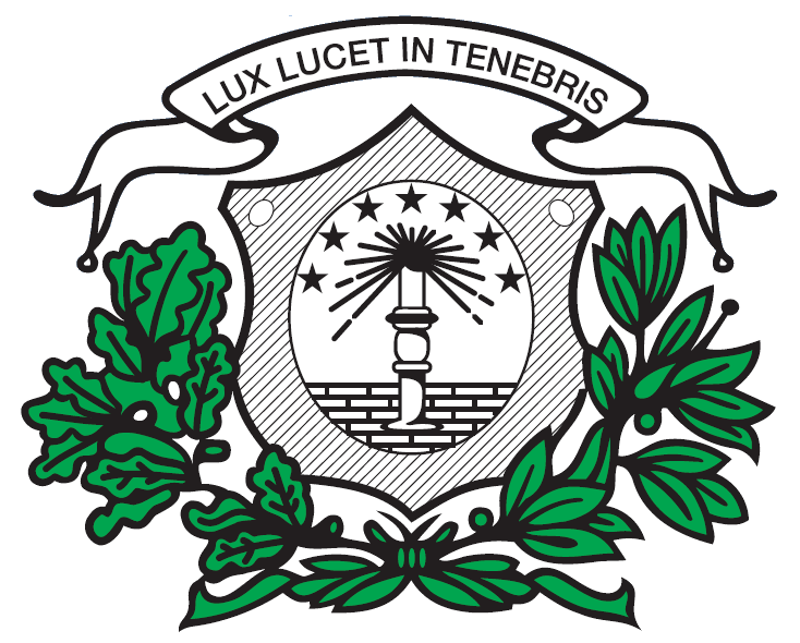 Coat of arms of Neuhengstett in Althengstett